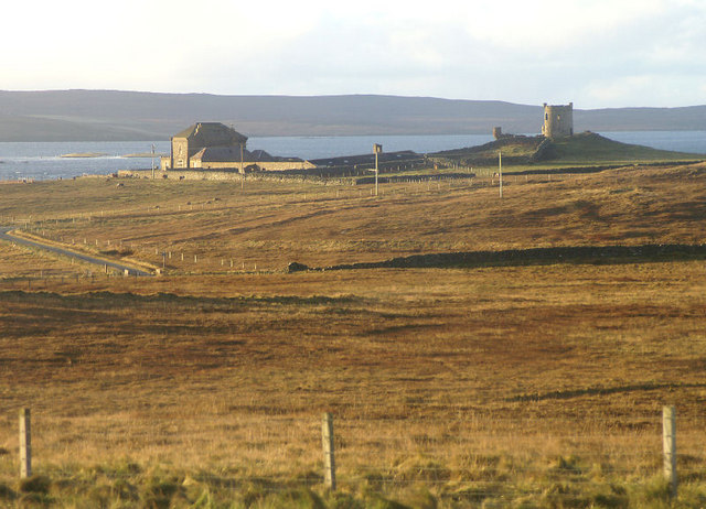 Brough Lodge, Fetlar Former home of the island lairds, the Nicolson family.